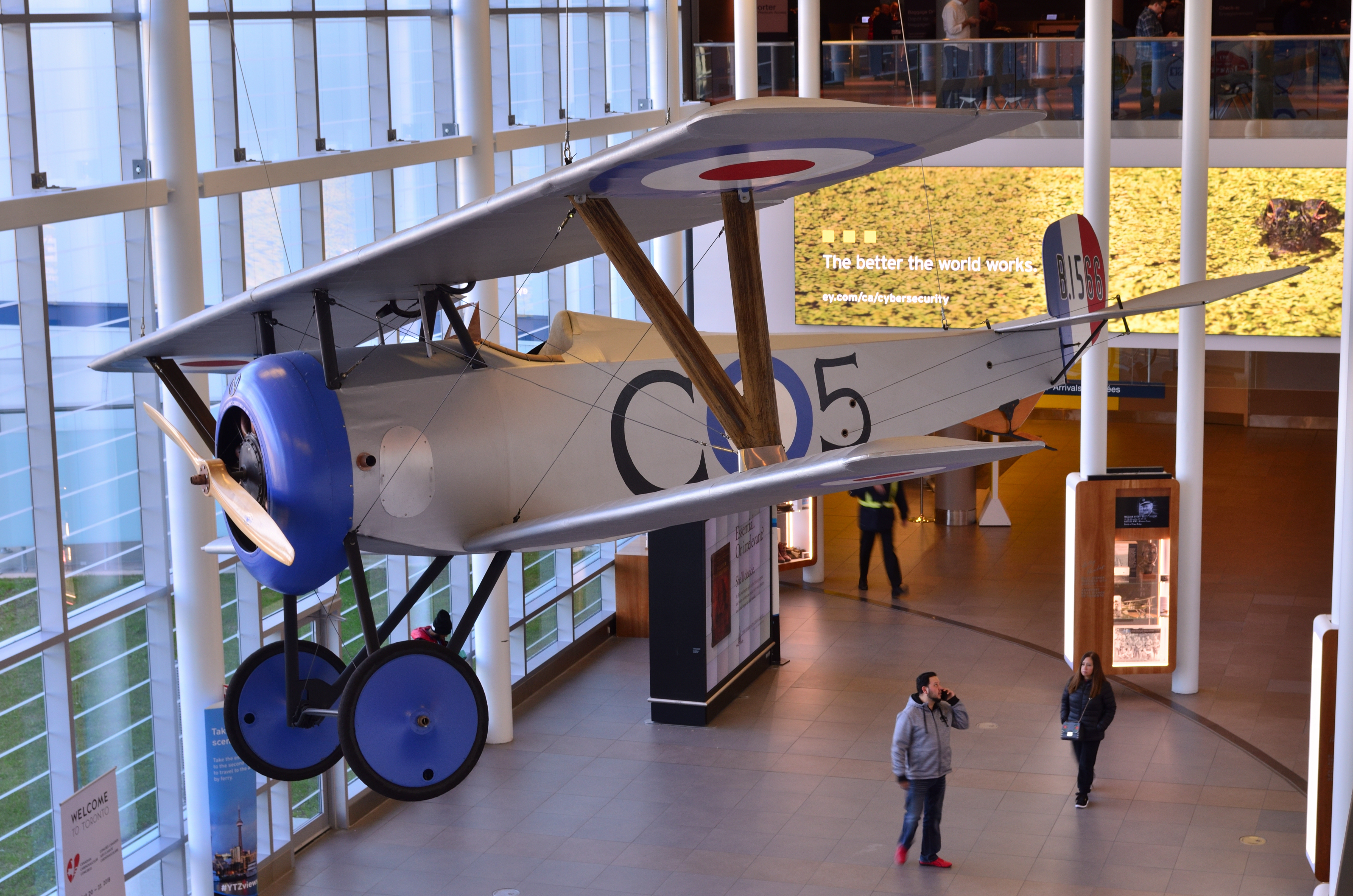 Billy Bishop Toronto City Airport terminal building atrium